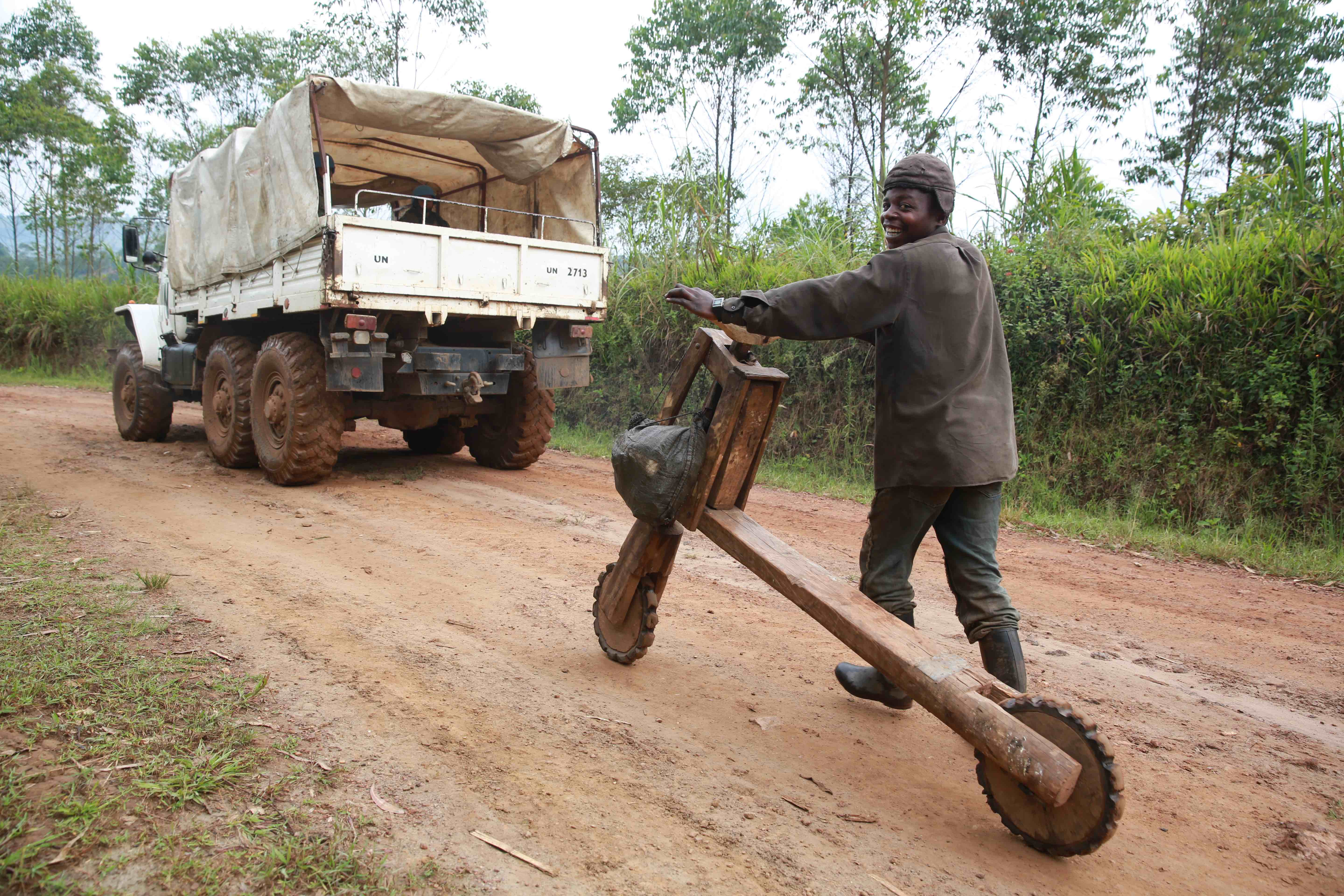 26 mars 2015. Alentours de Nyanzale, Nord Kivu, RD Congo : Un jeune homme suit paisiblement un convoi de la MONUSCO avec son vélo en bois, communément appelé «Tshukudu» . Photo MONUSCO/Abel Kavanagh == March 26, 2015. Around Nyanzale, North Kivu, DR Congo: A young man peacefully following a MONUSCO convoy with his wooden bicycle, commonly known as "Tshukudu." Photo MONUSCO/Abel Kavanagh